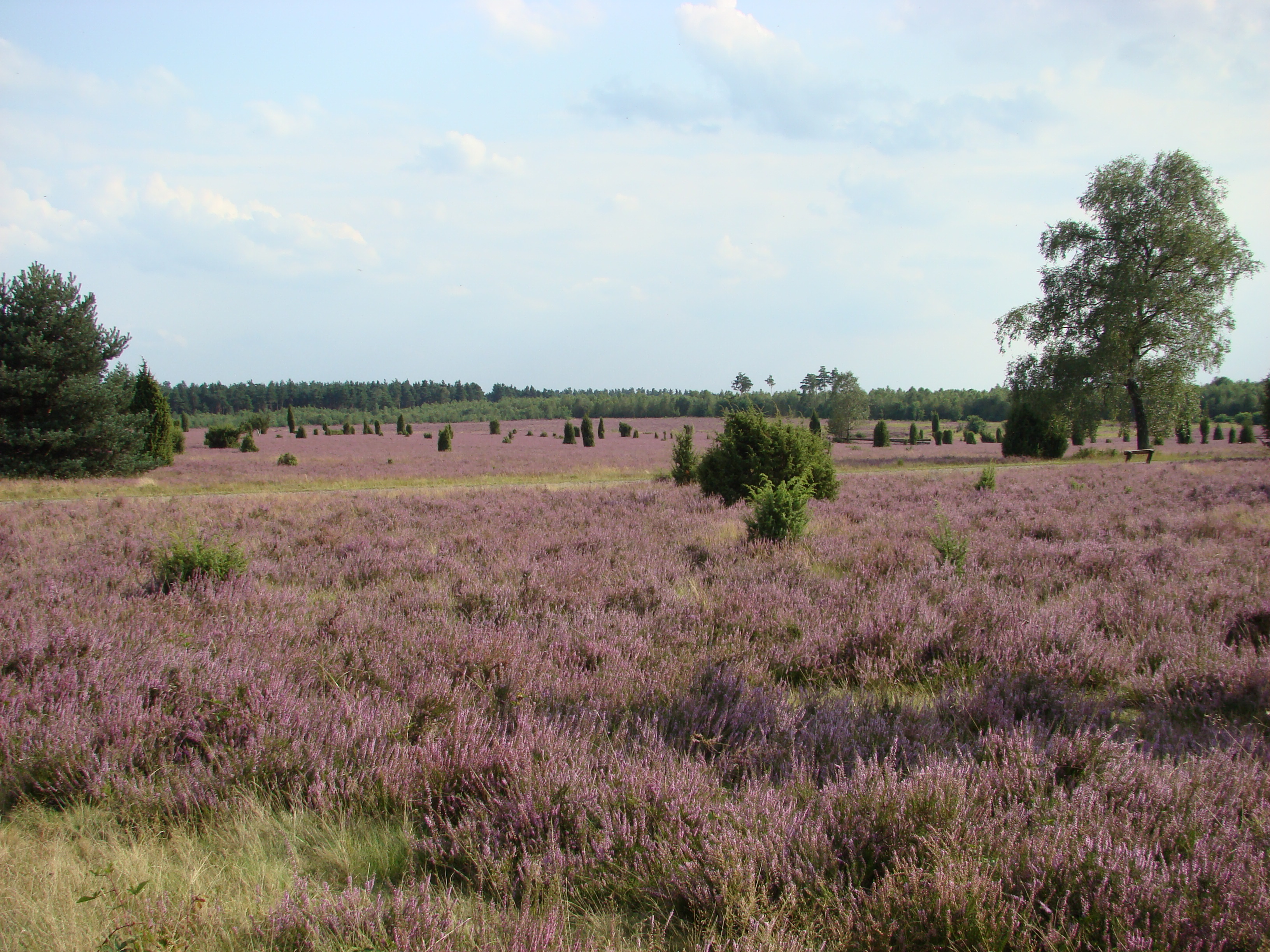 Heathland in the Tiefental valley near Hermannsburg, Lüneburg Heath, Lower Saxony, Germany